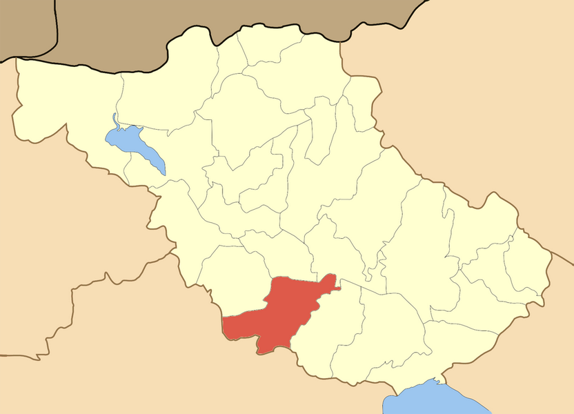 Locator map of Nigritas municipality in Serres perfecture in Greece.